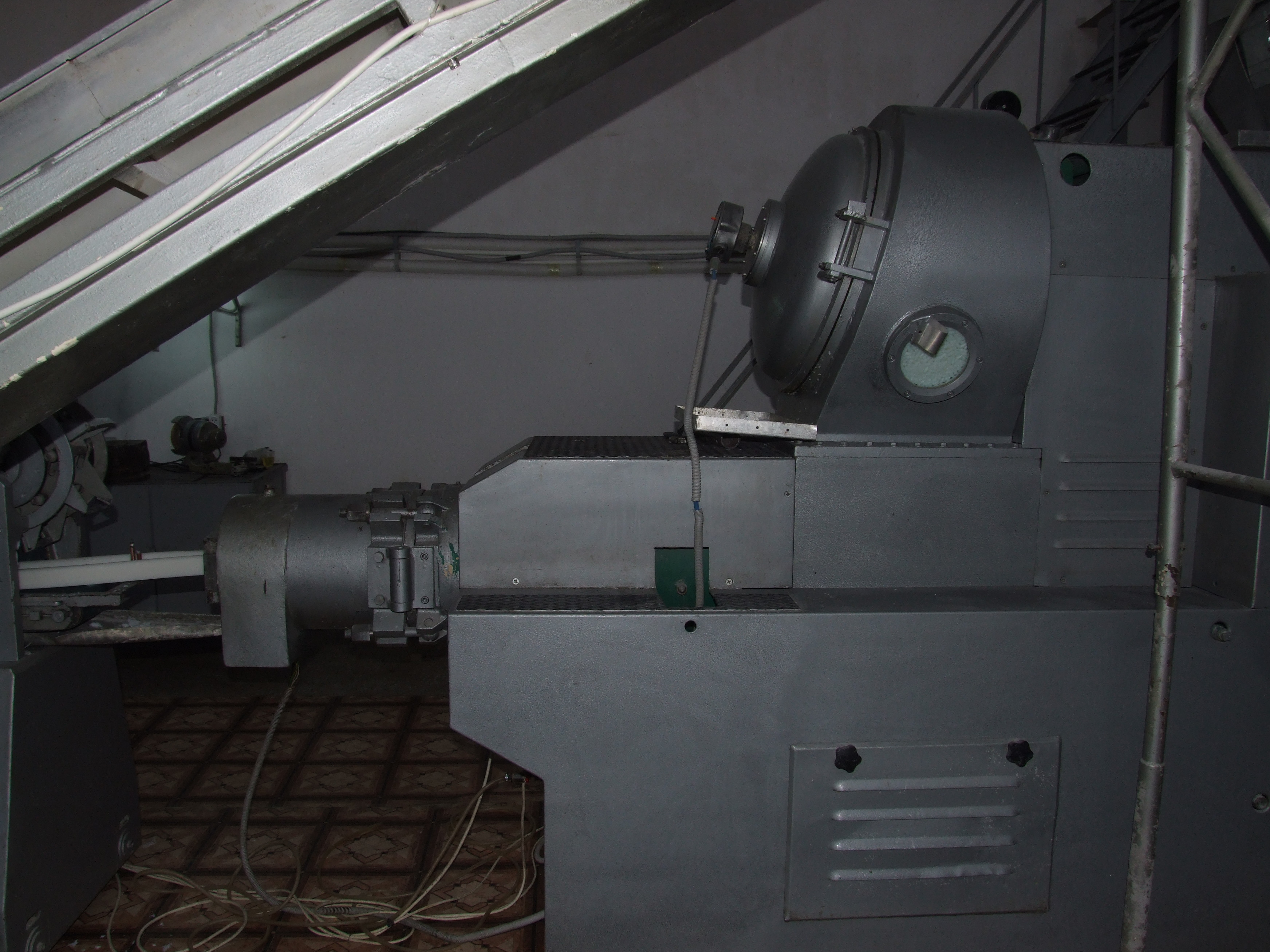 Extruder for making soap of granulate